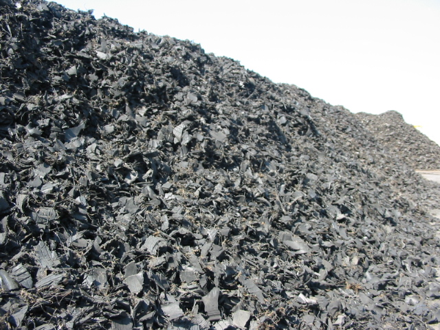 Piles of shredded tires